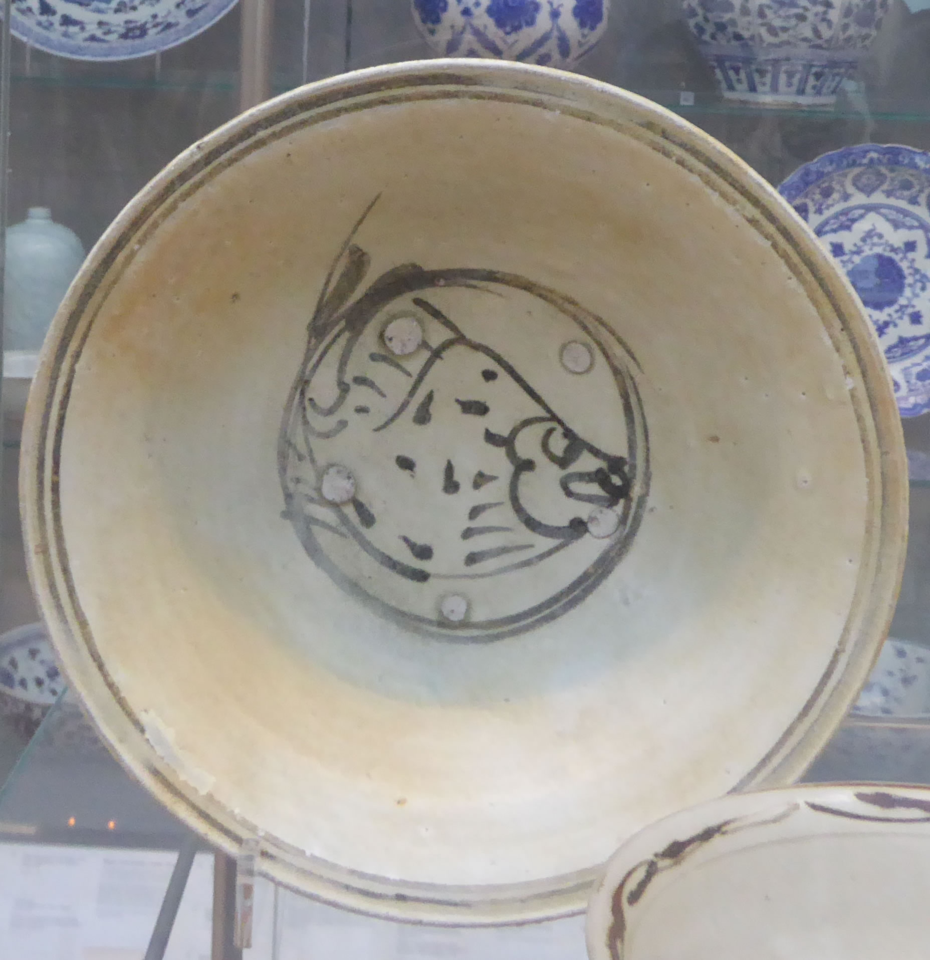 Sukhothai-ware, found in the Turiang shipwreck, Victoria and Albert Museum